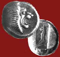 Colchis coins